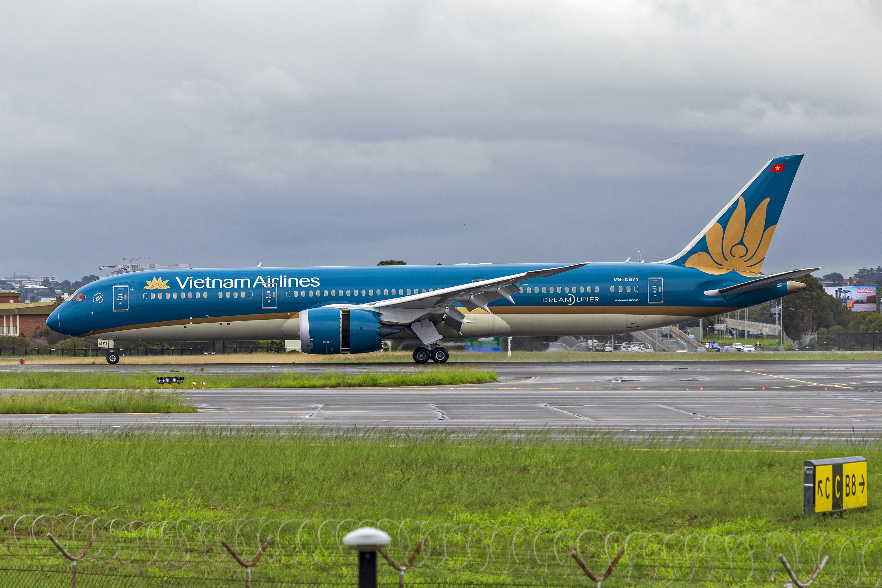 Vietnam Airlines (VN-A871) Boeing 787-9 Dreamliner landing at Sydney Airport.